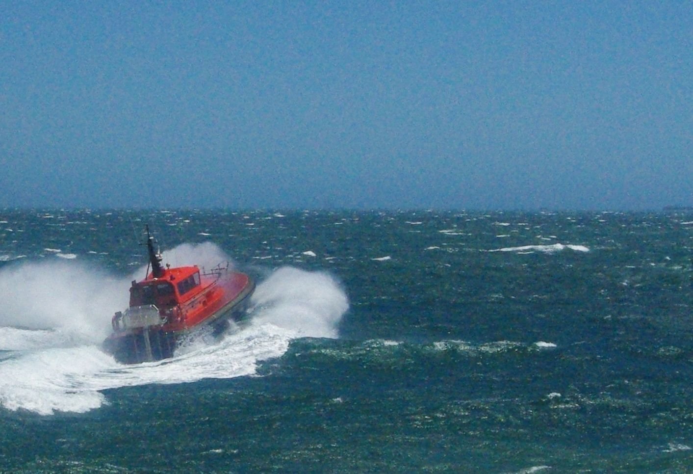 Pilot Boat Parmelia at Fremantle Harbour entrance facing the Fremantle doctor on the afternoon of 30th January 2010